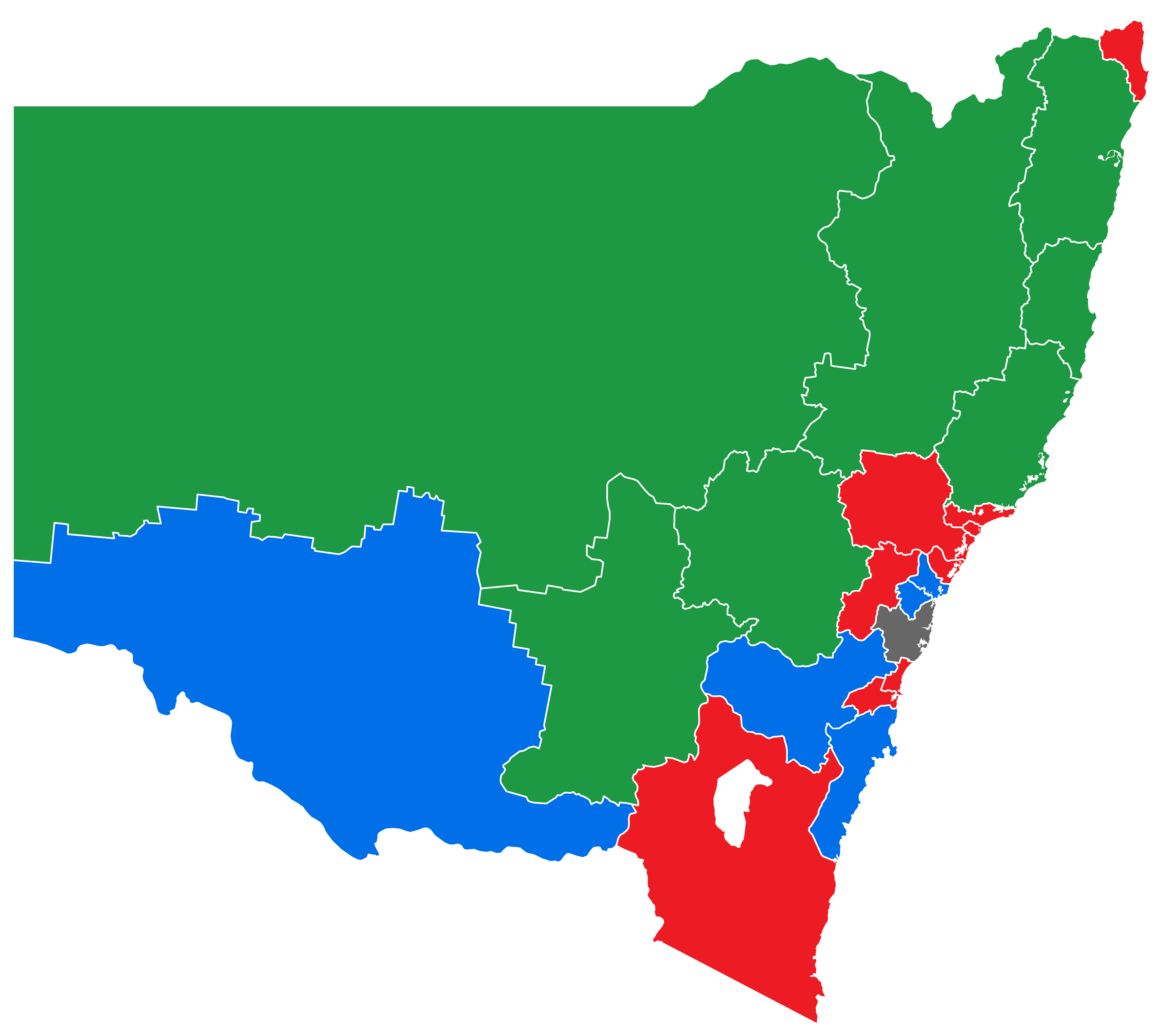 Results map of the Australian federal election, 2016 in New South Wales, showing federal electorates decorated in the color representing a win by a particular party.